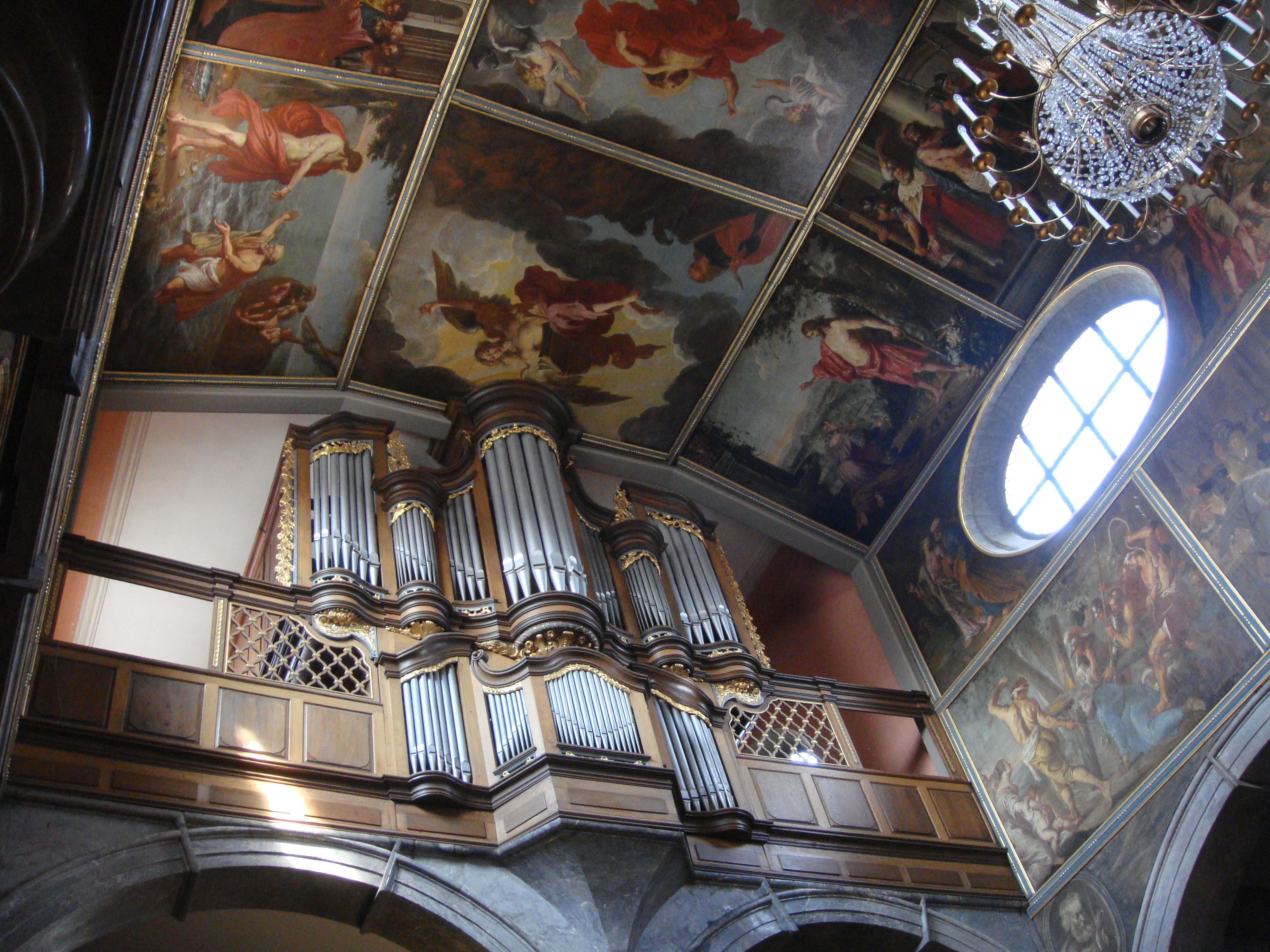 Unionskirche, view to the Walcker organ (1912), the Baroque paintings at the ceiling, and the chandelier from the old Kurhaus Wiesbaden